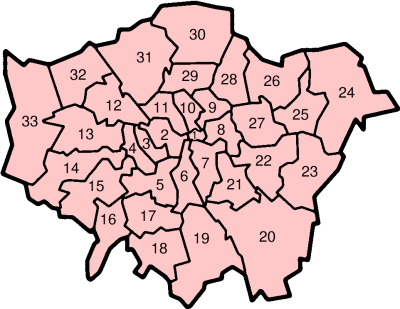 Numbered map of London boroughs